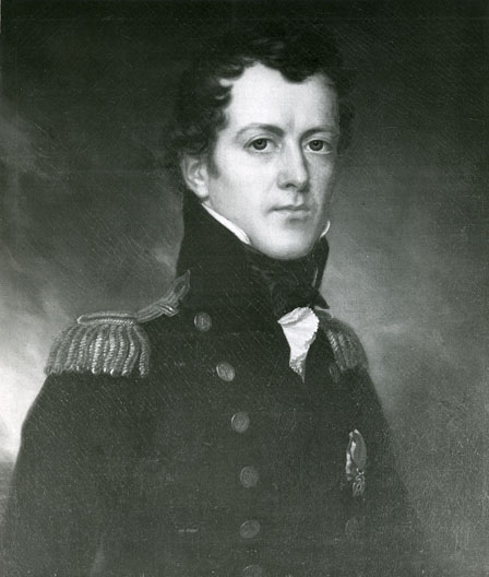 Title: James Biddle, Captain Usn Dated: 1830 Medium: Oil Dimensions: 26 x 22 in. (cm. 66.0 x 55.9) Location: United States Naval Academy - Museum City, State: Annapolis, MD